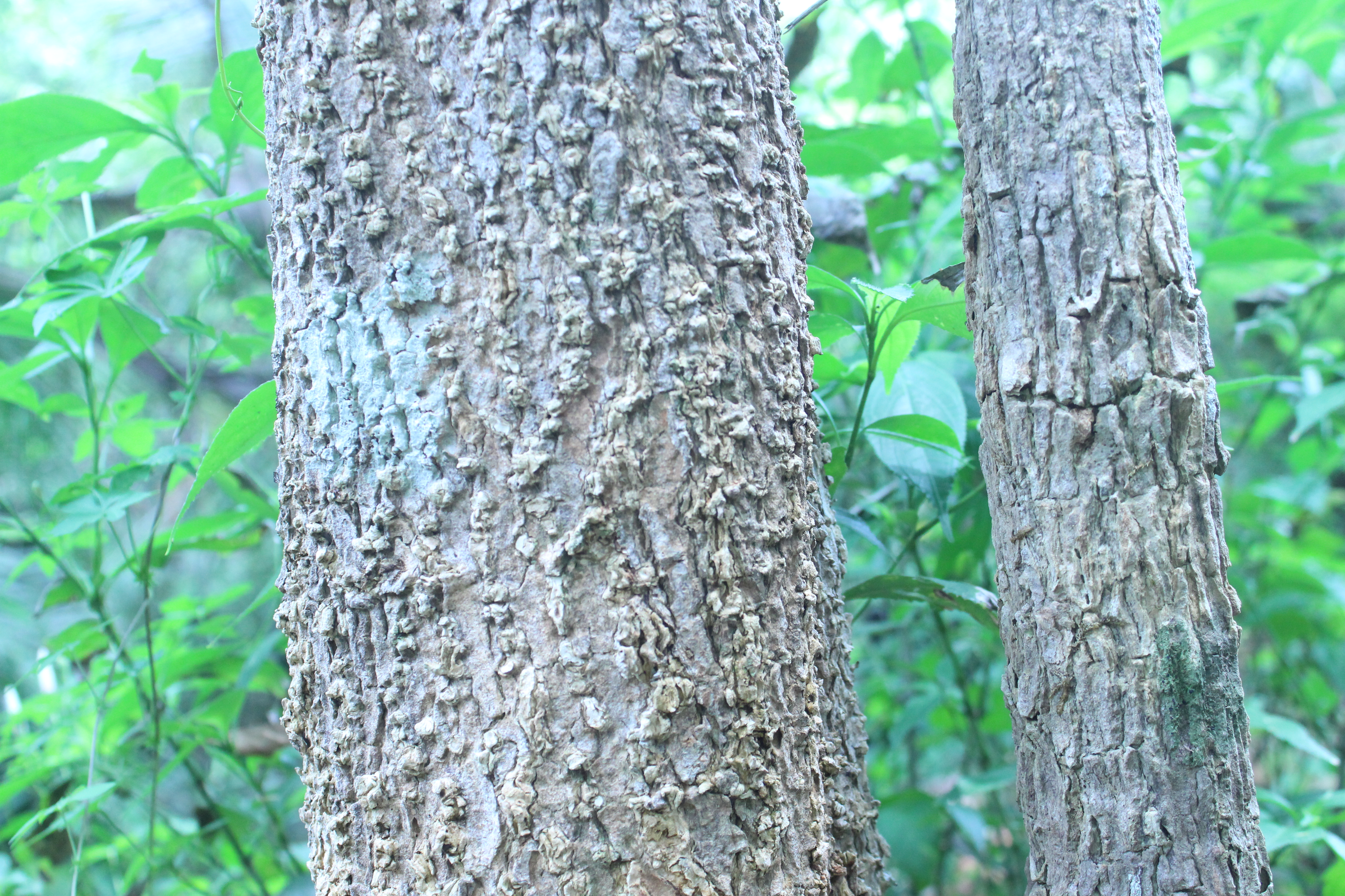 Shobhavana campus Moodbidre